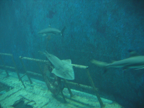 Aquarium of Lyon in France - A Guitarfish in the biggest aquarium